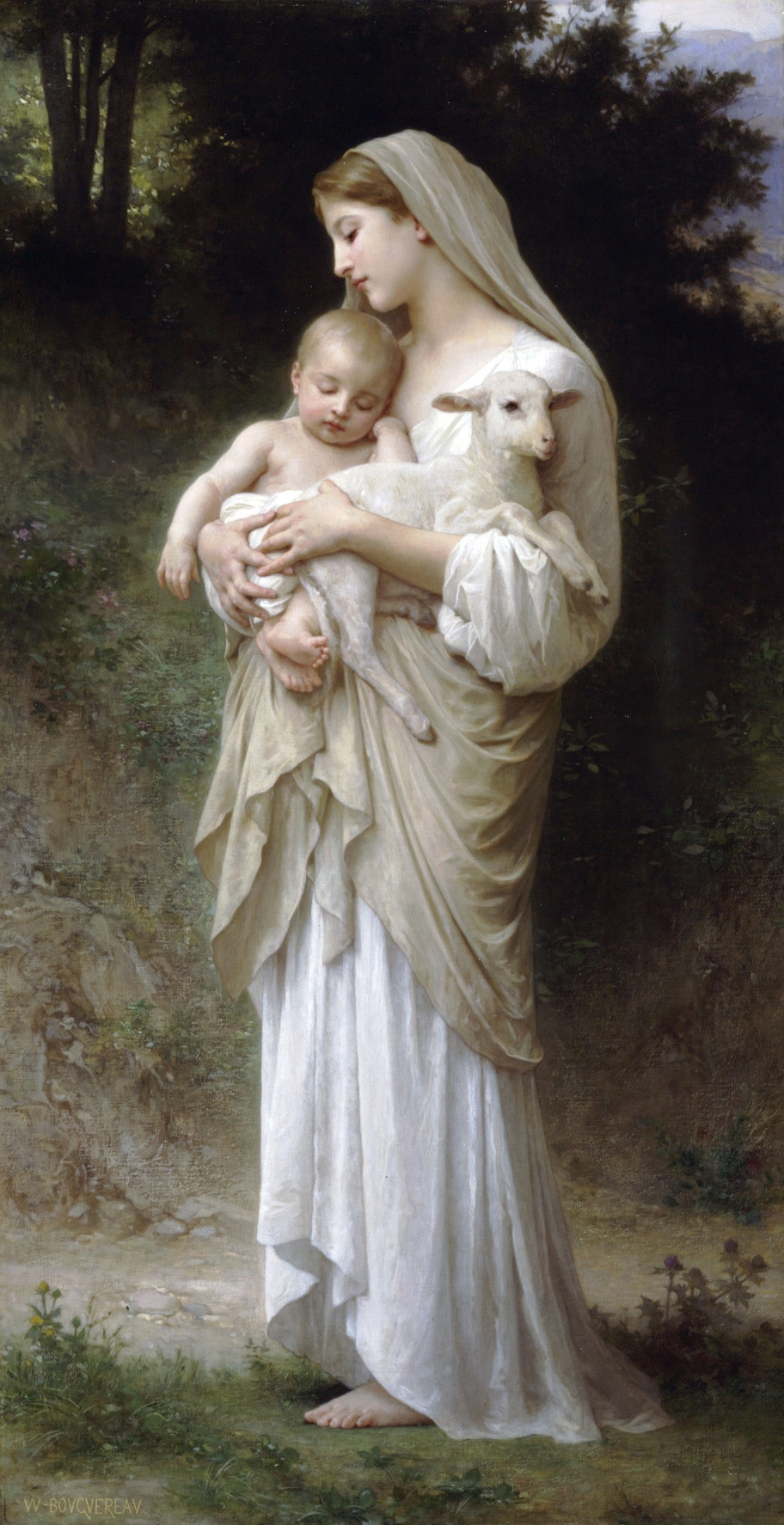 Bouguereau's L'Innocence. Both young children and lamb are symbols of innocence.